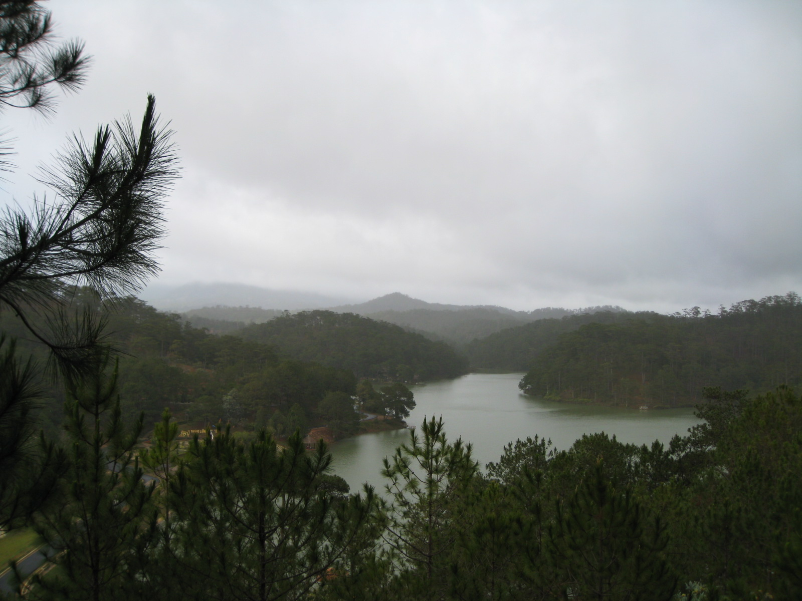 da lat, vietnam